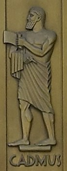 Sculpted bronze figure of Cadmus by Lee Lawrie. Doors, east entrance, Library of Congress John Adams Building, Washington, D.C.